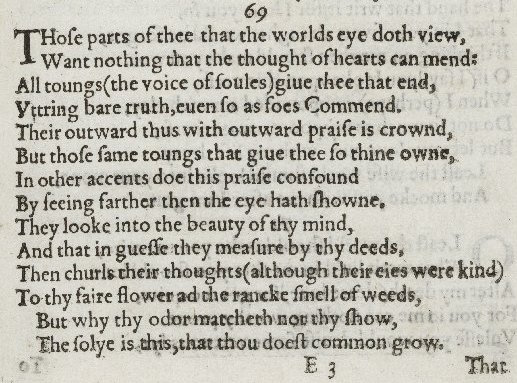 Sonnet 69 in the 1609 Quarto of Shakespeare's sonnets